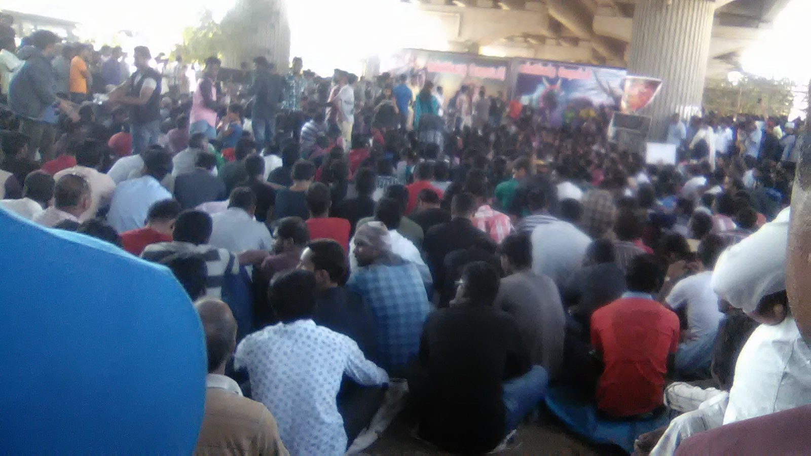 22. சனவரி 2017 அன்று ஒசூர் பழைய நகராட்சி அலுவலகம் எதிரில் நடந்த ஜல்லிக்கட்டு ஆதரவு போராட்டத்தின் ஒரு பகுதி